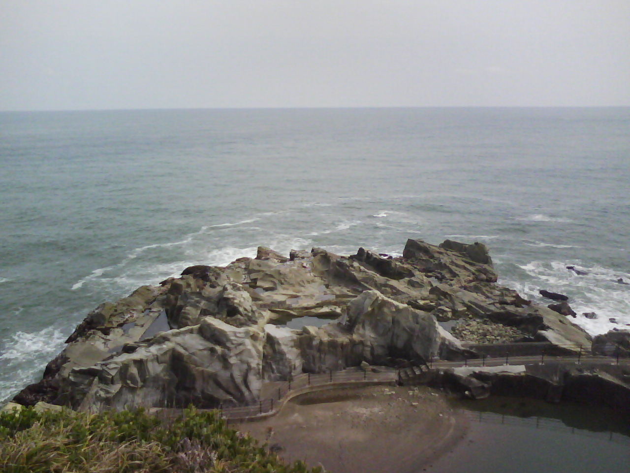 This photo presents head of Cape Inbosaki.